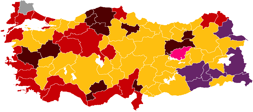 Map of provinces won by party in the 31 March 2019 local elections in Turkey. AKP CHP MHP HDP TKP Independent